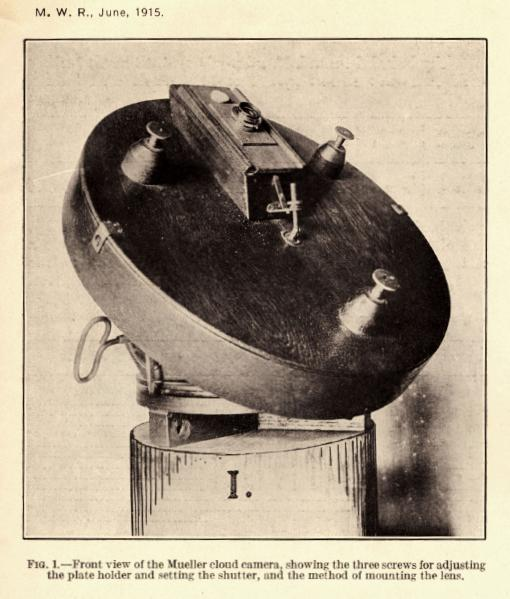 Rotating whole sky camera for clouds capture